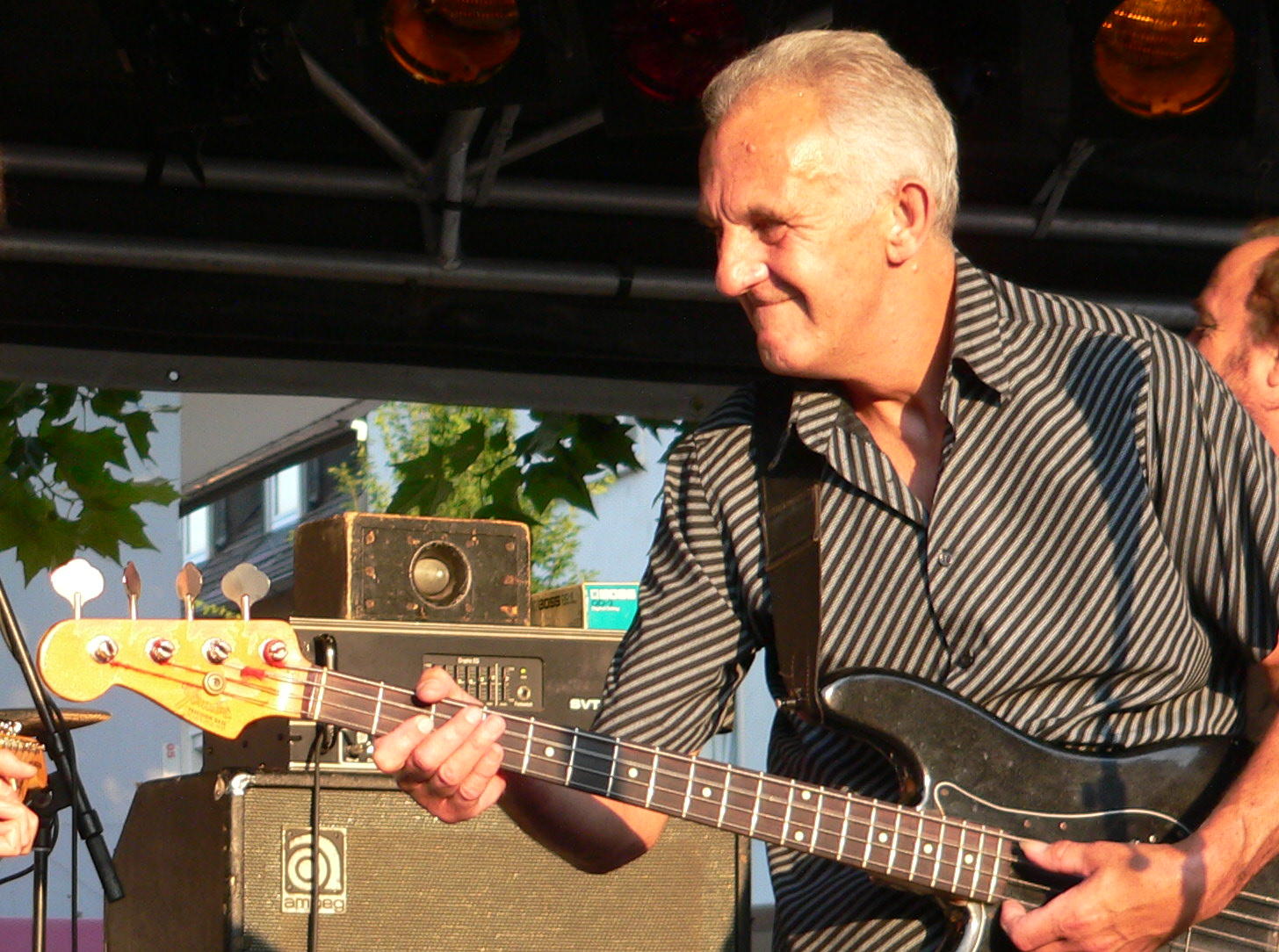 Colin Hodgkinson (now: Spencer Davis Group) at a concert on 8. July 2006 in Neckarsulm